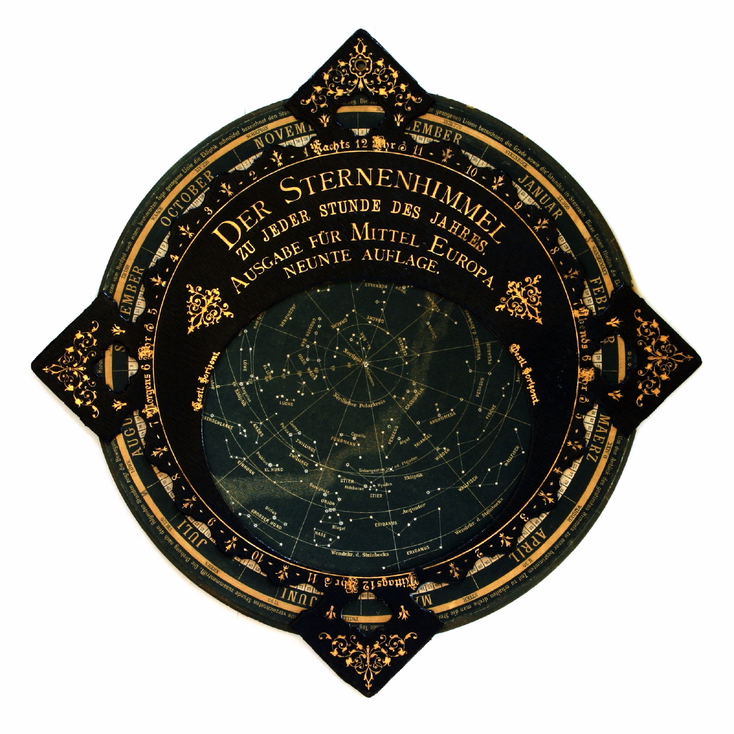 Revolving star chart (Planisphere) by A. Klippel. Published by "Verlag der Deutschen Lehrmittel-Anstalt Franz Heinrich Klodt", Frankfurt (Main), Germany, around 1900.